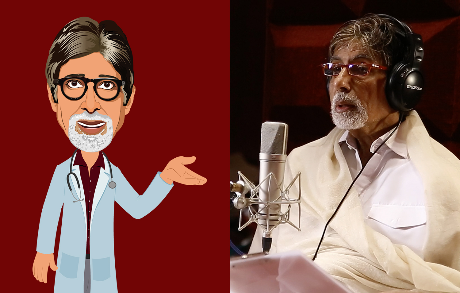 Amitabh Bachchan donates his voice for the English and Hindi language versions of the TeachAIDS animated software at BR Studios in Mumbai, India. Photo credit: TeachAIDS